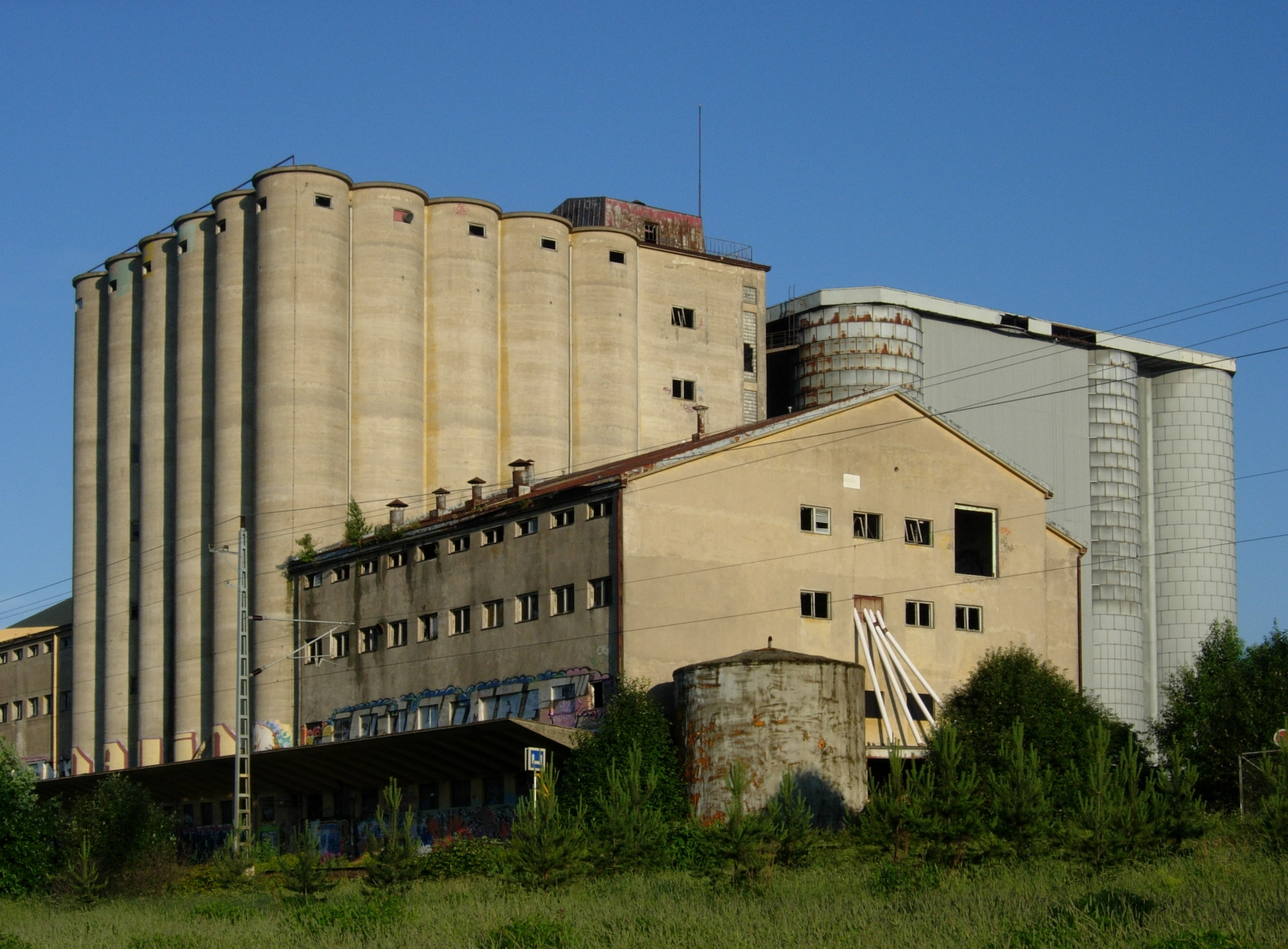 An abandoned silo in Raunistula, Turku